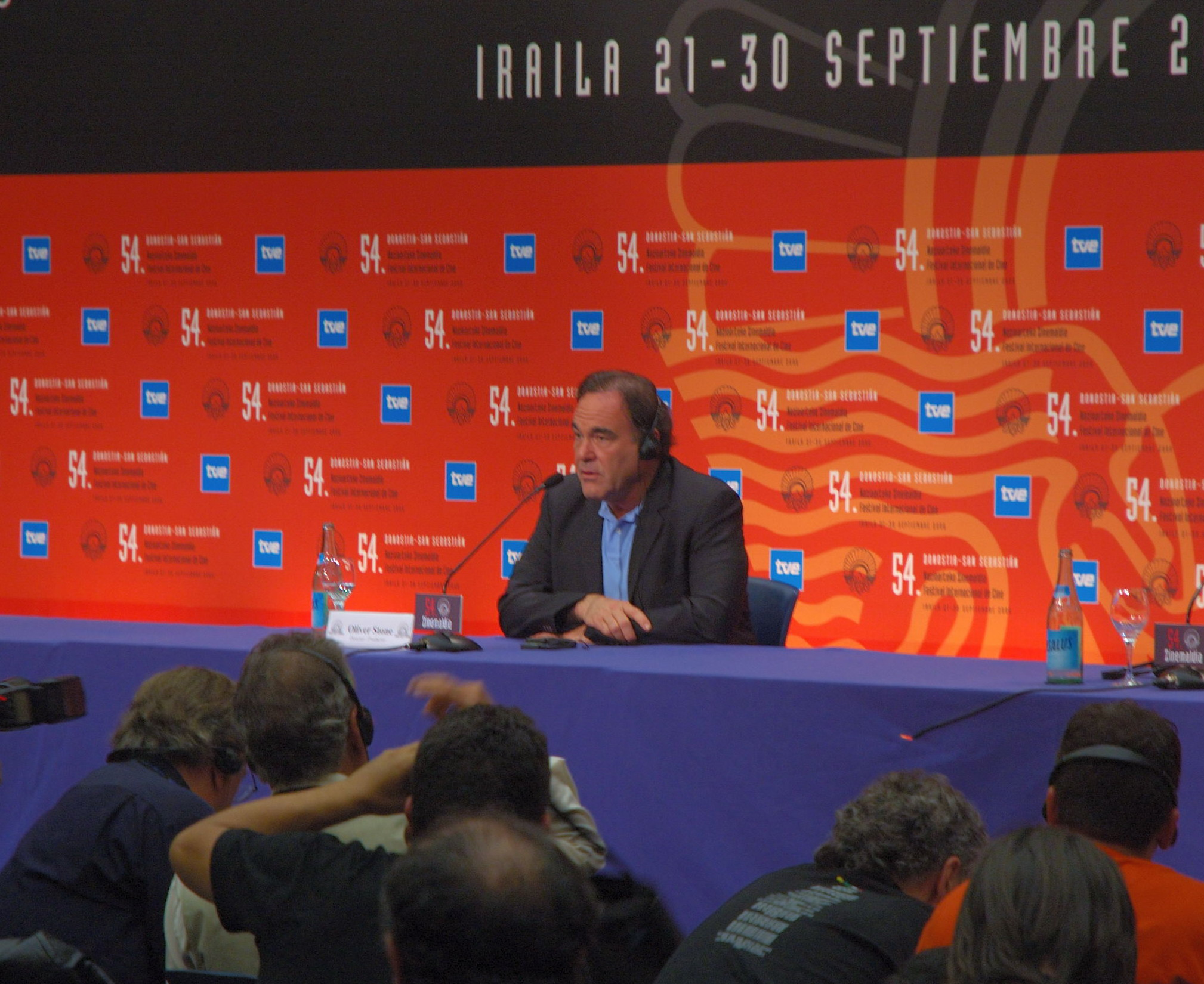 Oliver Stone in the San Sebastian International Film Festival (Spain)